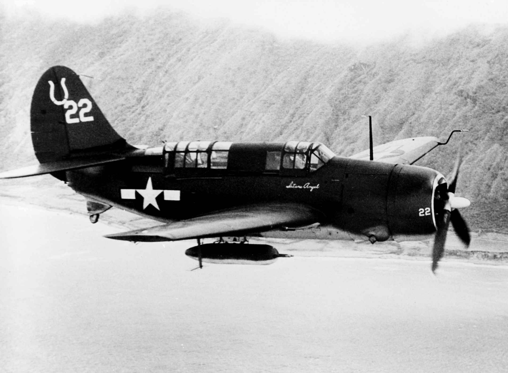 A U.S. Navy Curtiss SB2C-3 Helldiver of Bombing Squadron VB-7 in flight off Formosa. VB-7 operated from the aircraft carrier USS Hancock (CV-19) during the period from September 1944 to January 1945, and participated in the Battle of Leyte Gulf in October 1944. Note the nickname "Satans Angel" beneath the cockpit and the horseshoe tail symbol, which identified the fact that the aircraft was assigned to USS Hancock. The aircraft carries a twin machine gun pack under the wing.